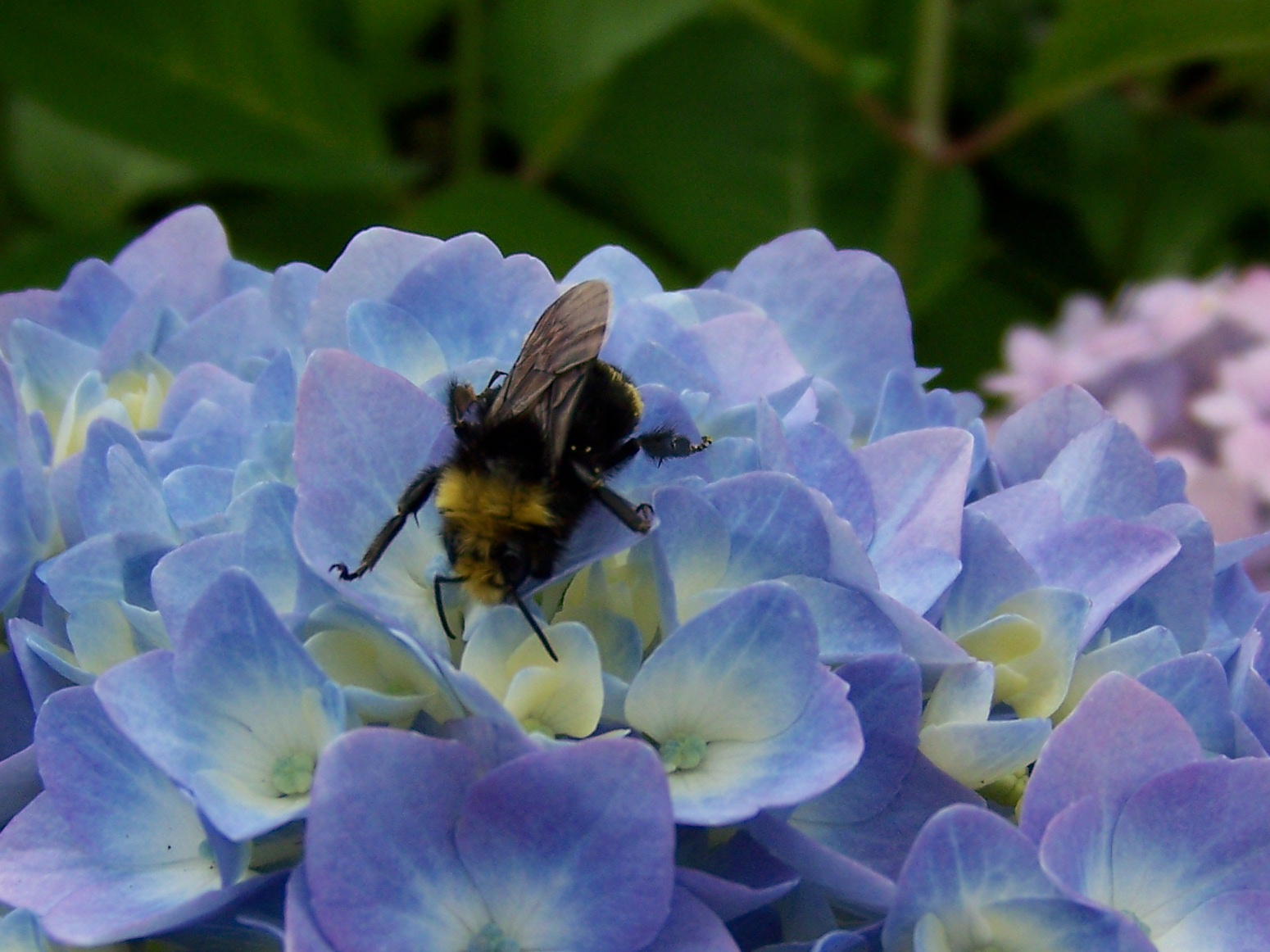 Bombus Vosnesenskii on a Blue Hydrangea Taken in backyard at a home in South Everett, Snohomish Co., Washington State, USA Date: 28 August 2006. Time not recorded.